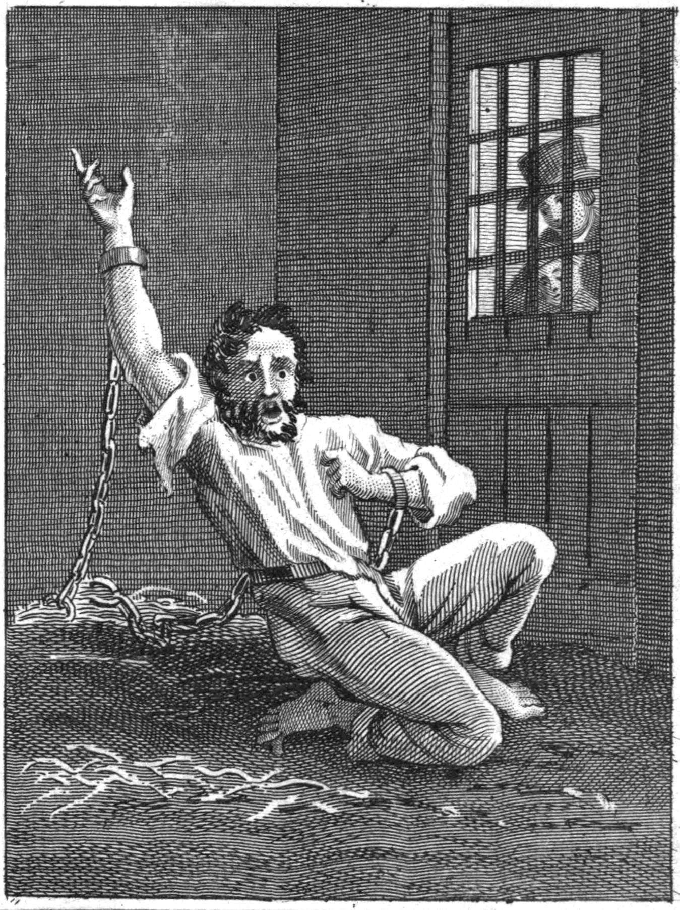 Chained lunatic howls in an asylum